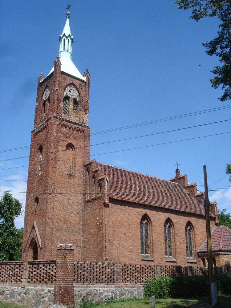 Church in Ryszewko, Poland, West Pomeranian Voivodeship, Pyrzyce Country, commune Pyrzyce